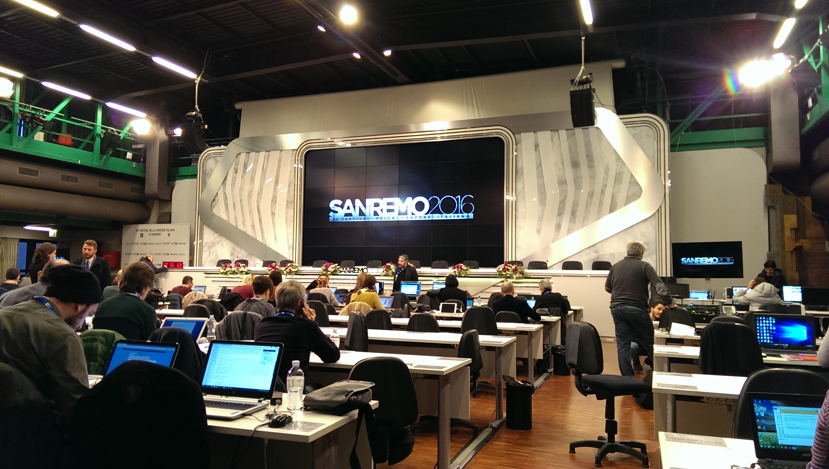 Sanremo 2016